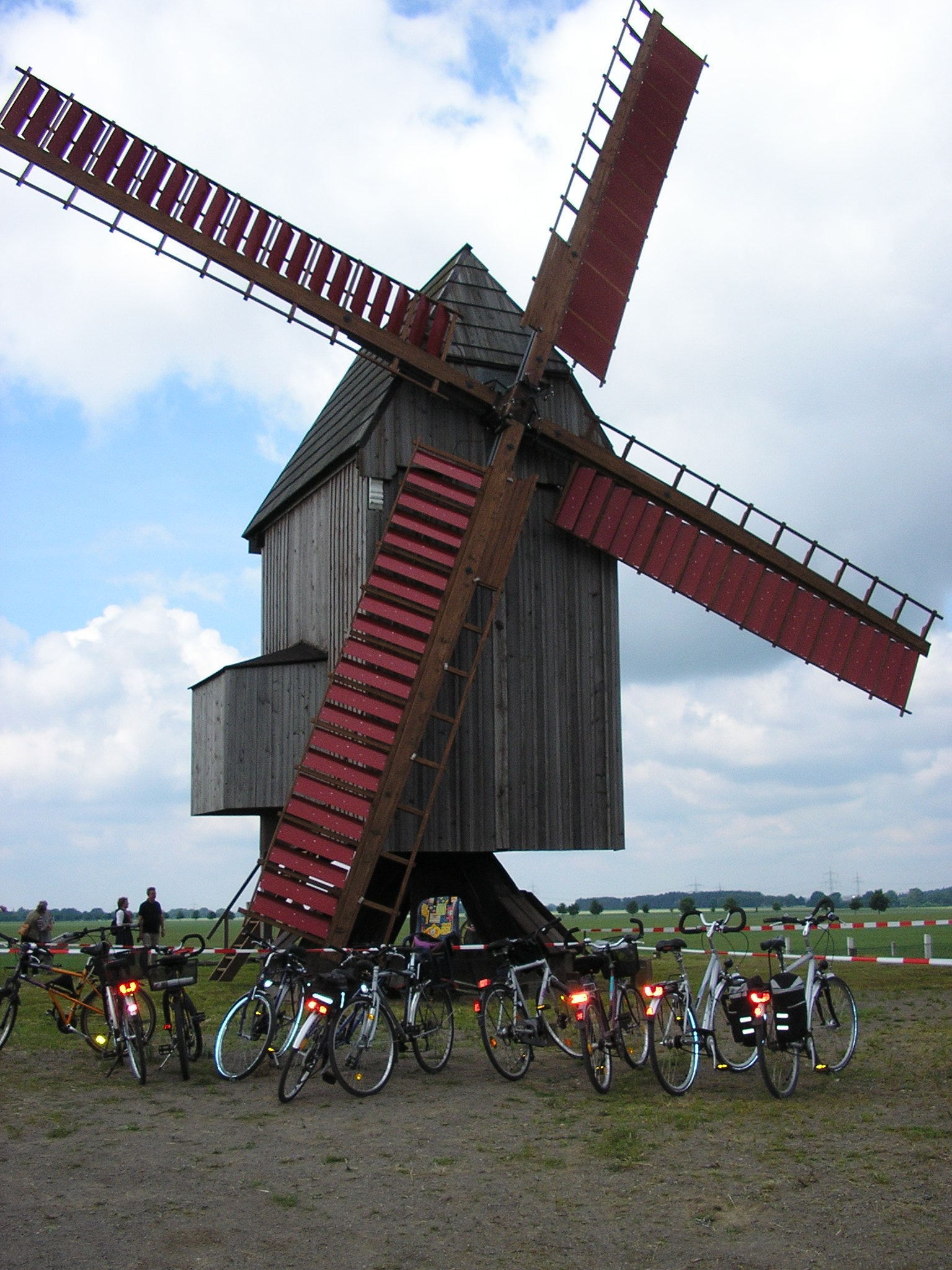 The Post mill „Ludwig“ near Authausen